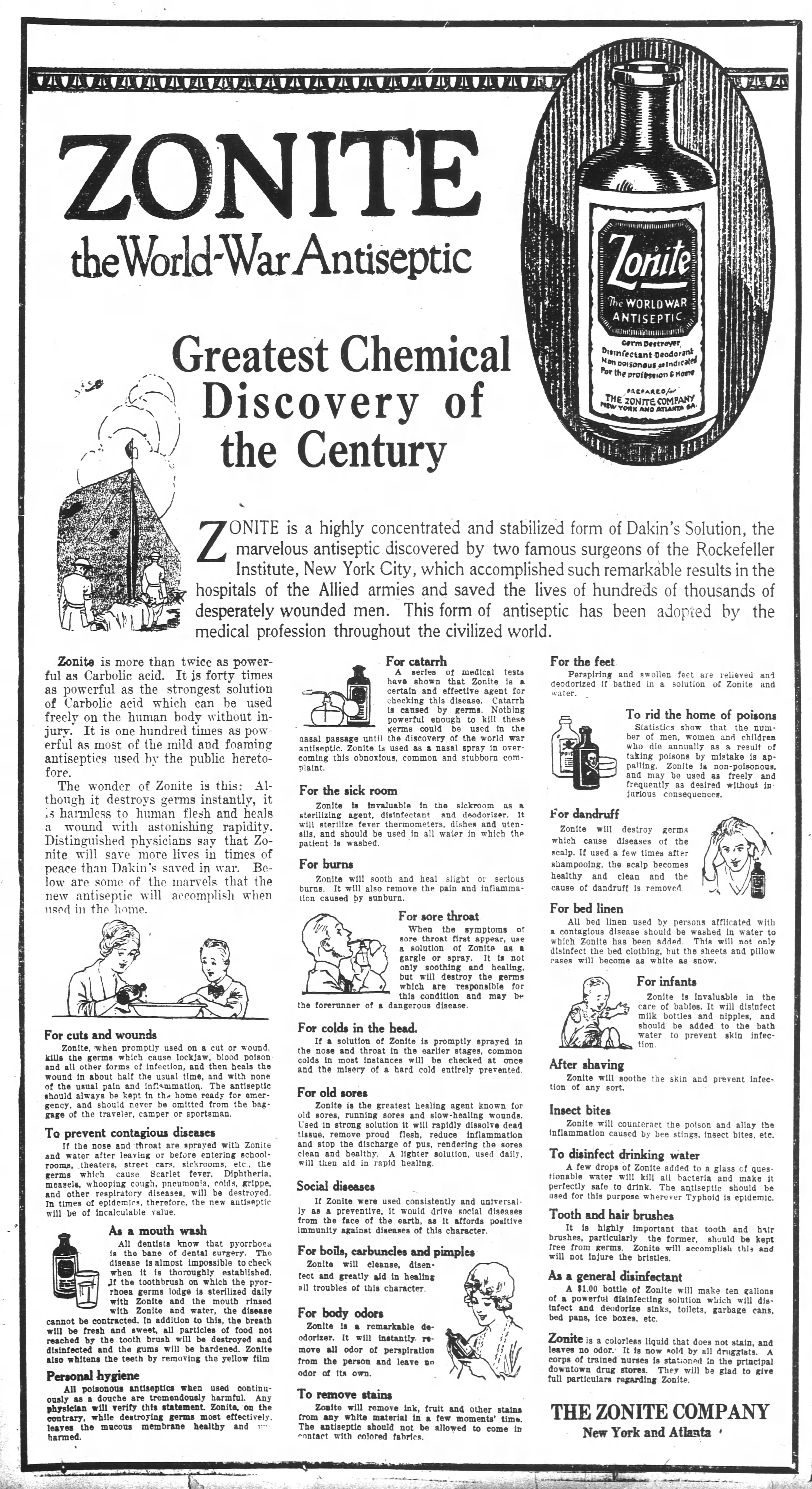 Zonite advertisement in Atlanta Constitution 1920-12-12